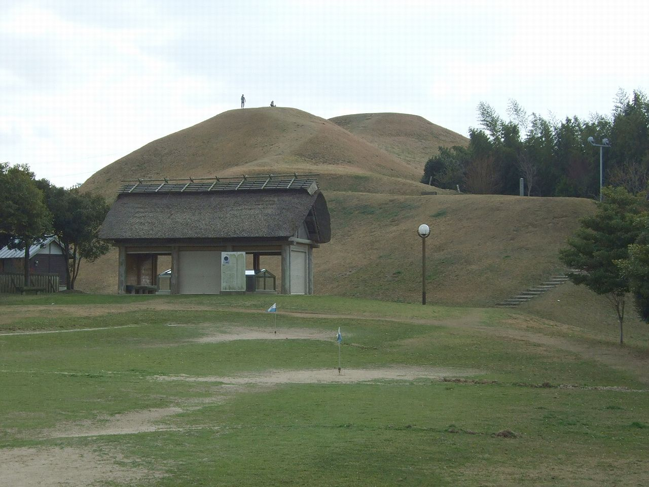 Kuri Sozui Kofun Ruins, Sozui, Karatsu City, Saga, Japan.